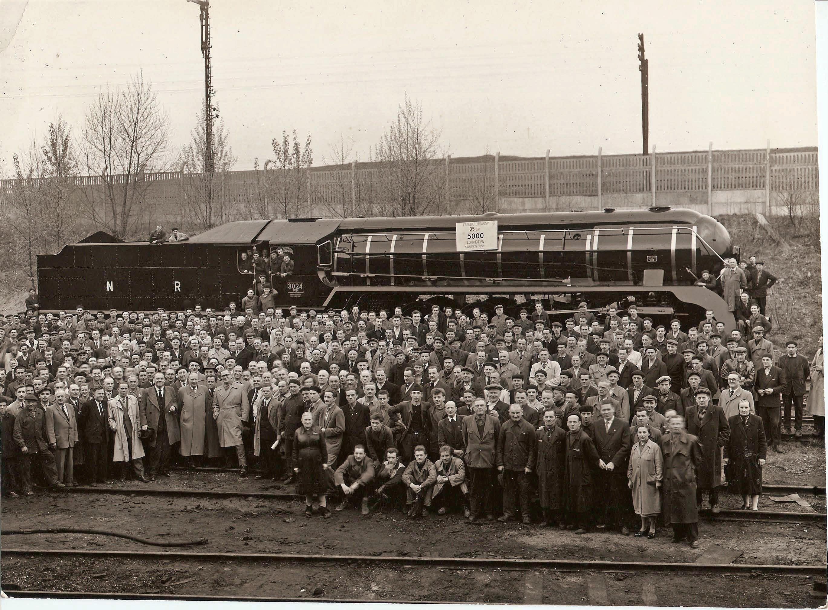 Group picture of Fablok employees in front of the 5,000th locomotive WP produced for export to India. Technical director Klemens Stefan Sielecki is the sixth person (front row from left) with his hat in his right hand.